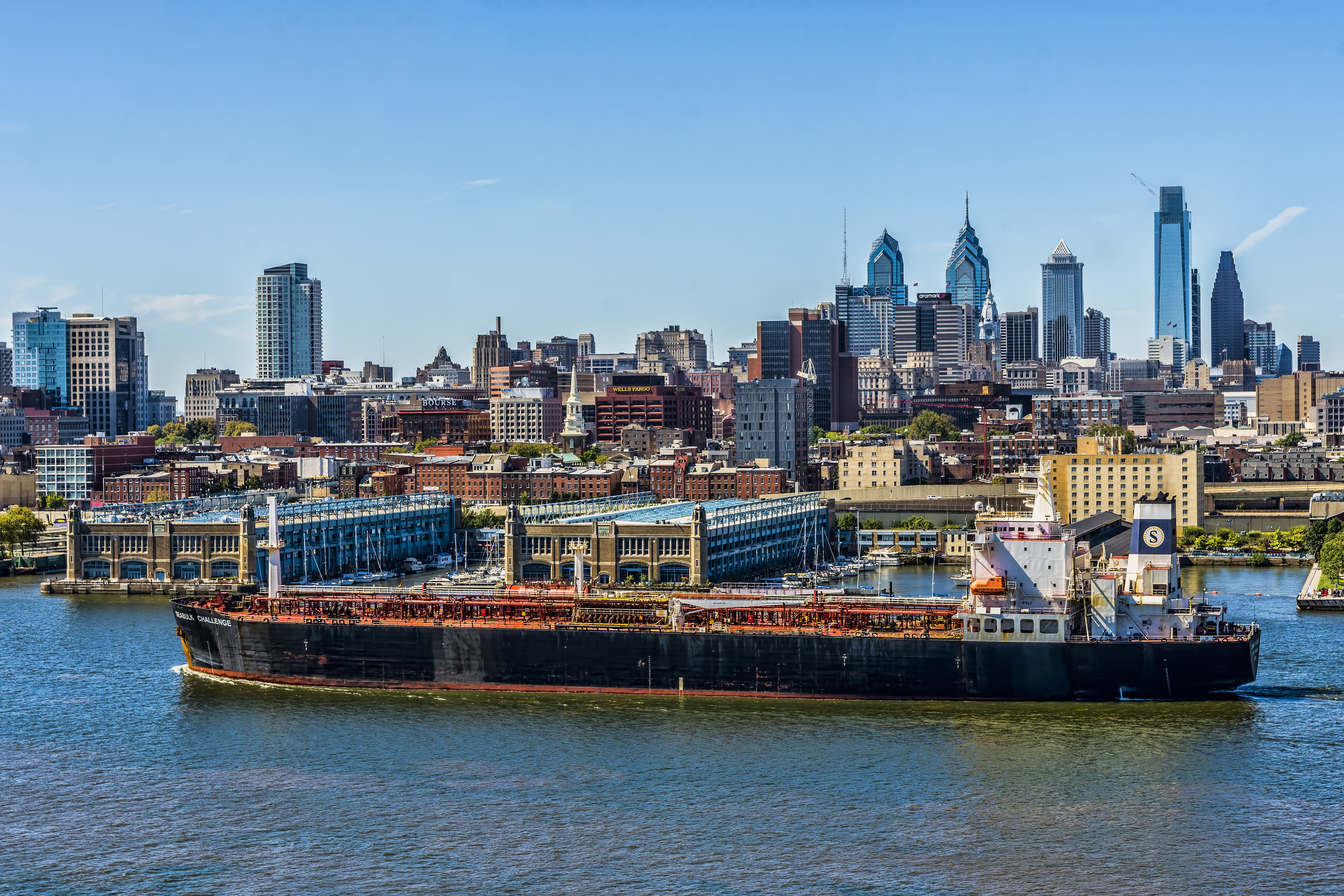 A view of the Philadelphia waterfront area